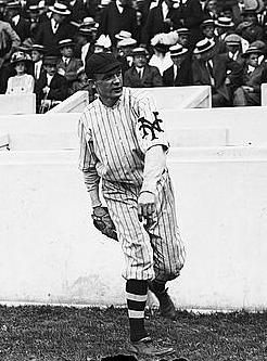 New York Giants pitcher Rube Marquard pitching at the Polo Grounds.